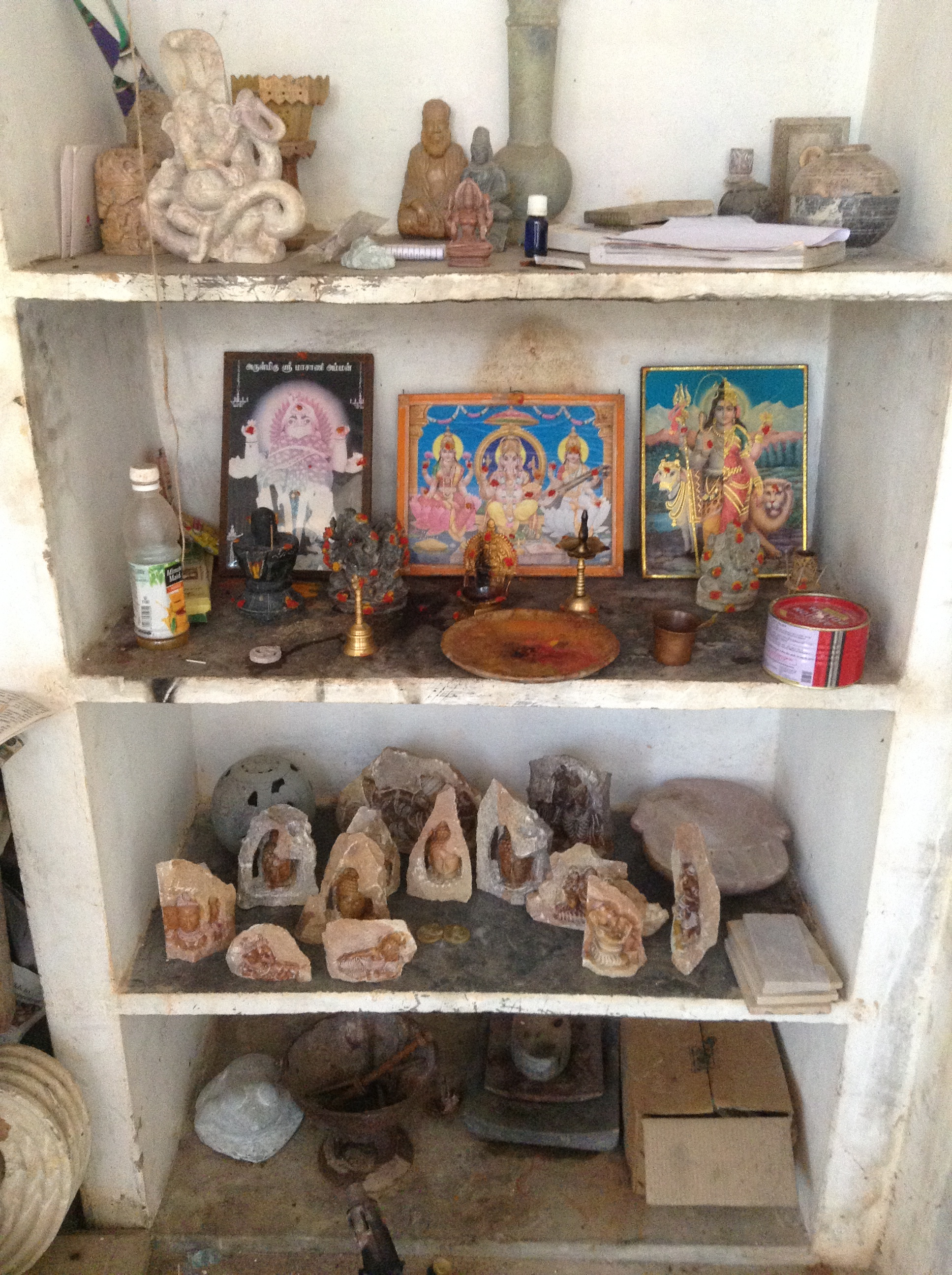 Indian Arts stall